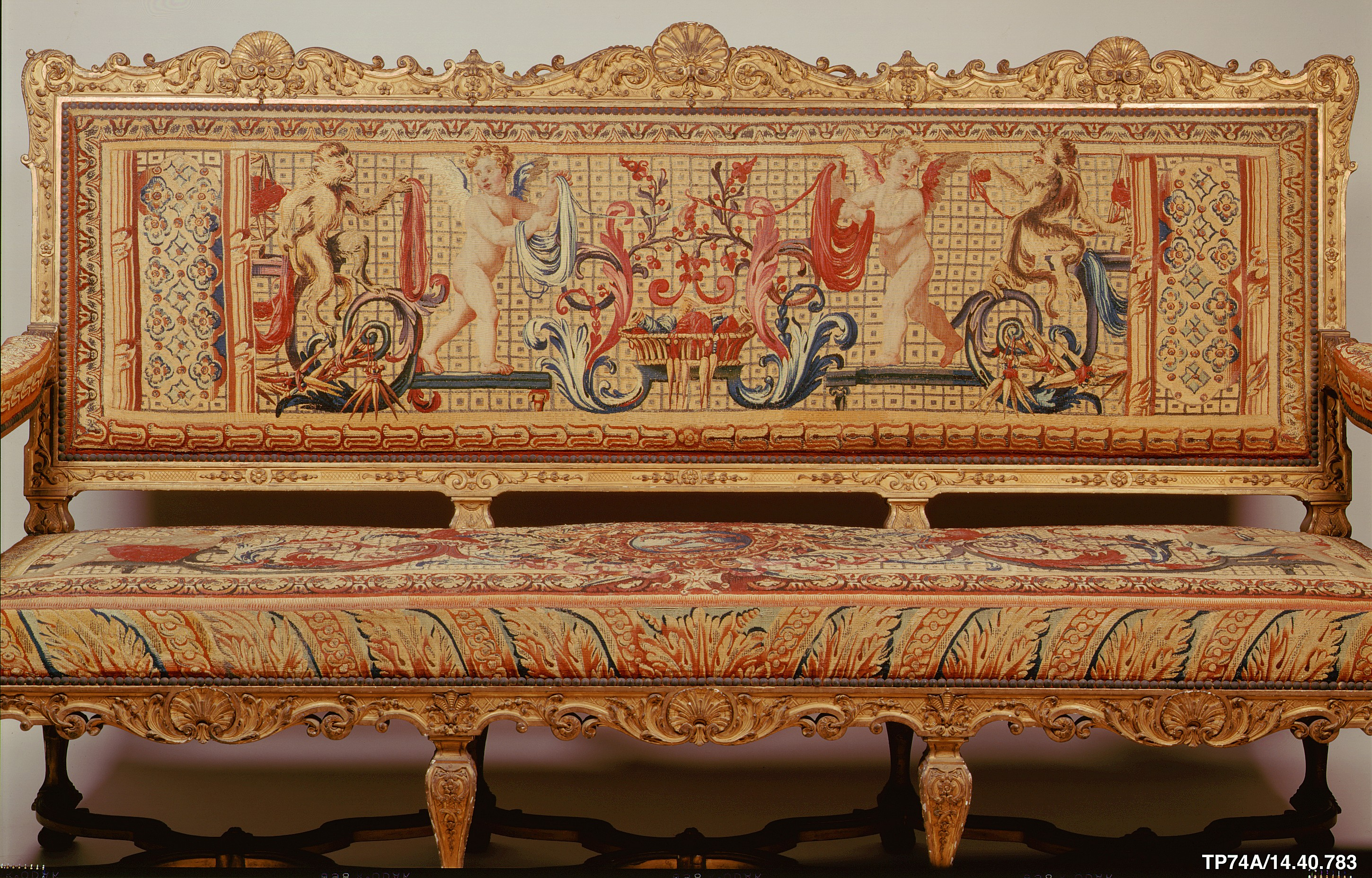 French; Sofa; Woodwork-Furniture